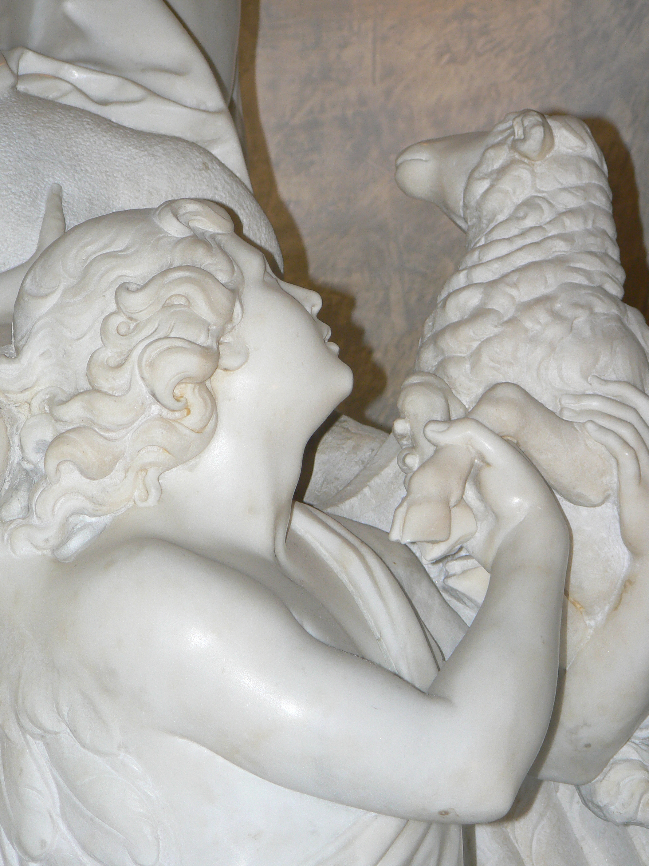 Sculpted on 1791 for the Parish Church of St. Agnese in Genova, the sculpture was translated in N.S. del Carmine at the beginning of XIX century, place where today we can see this masterpiece.